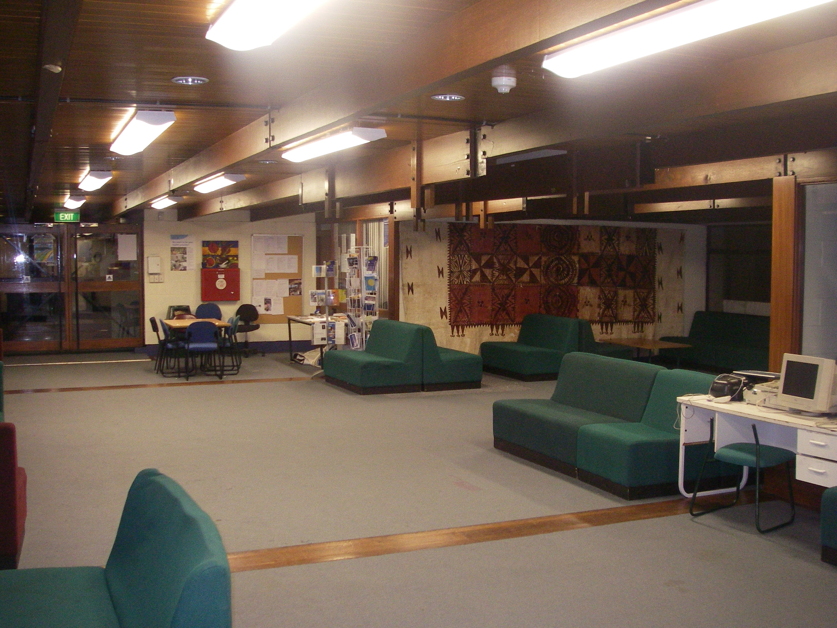 Lagi Atea Moana Cultural Space, located 4th floor of the AUSA Student Union Buildings.